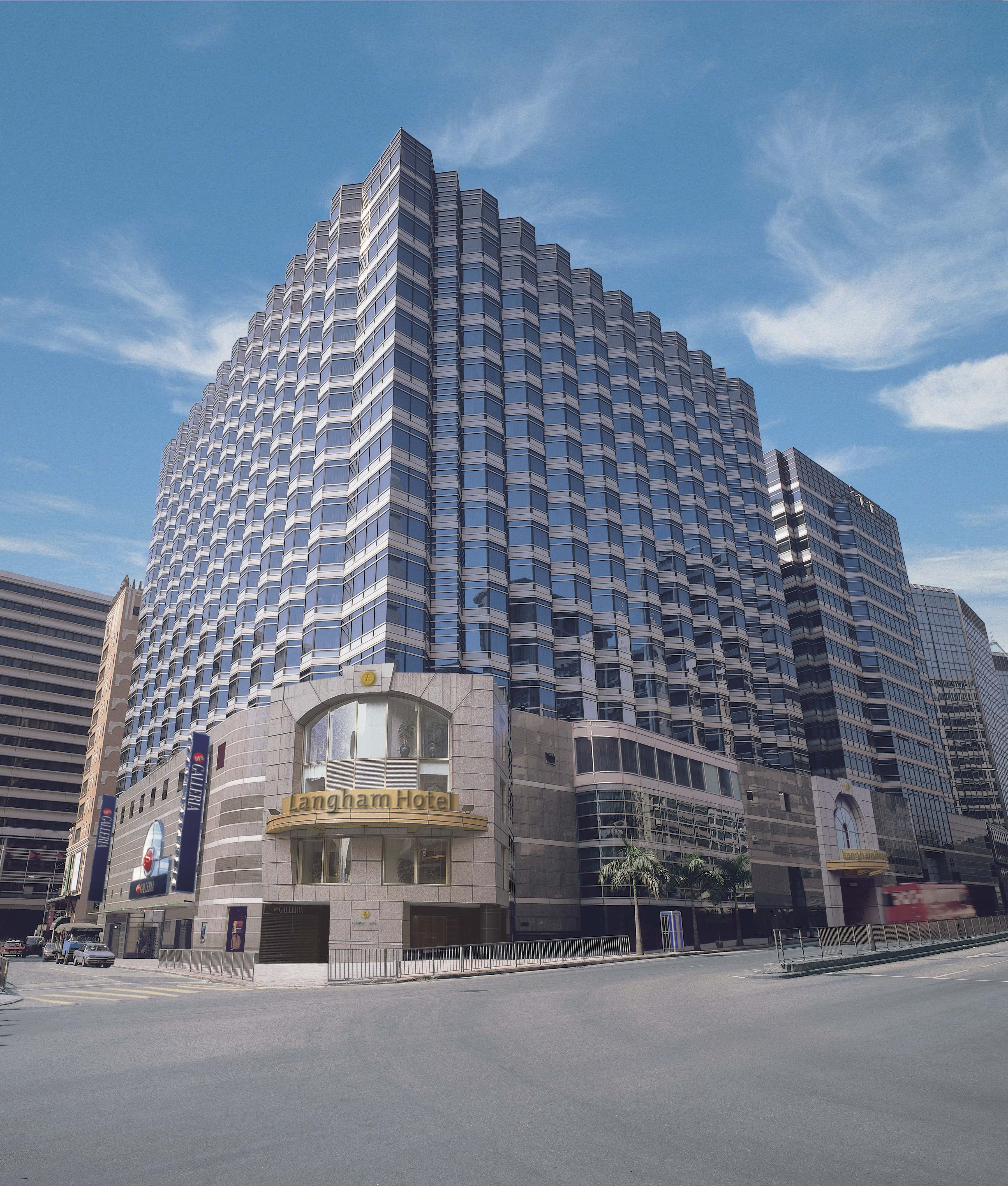 The Langham, Hong Kong